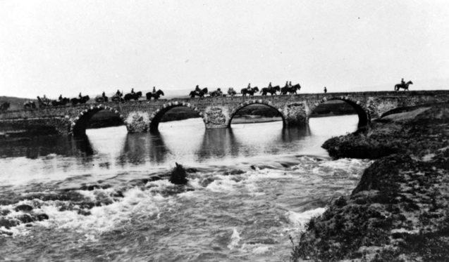 Photo of Australian artillery crossing the Leontes River in early 1919 Other information Copyright expired